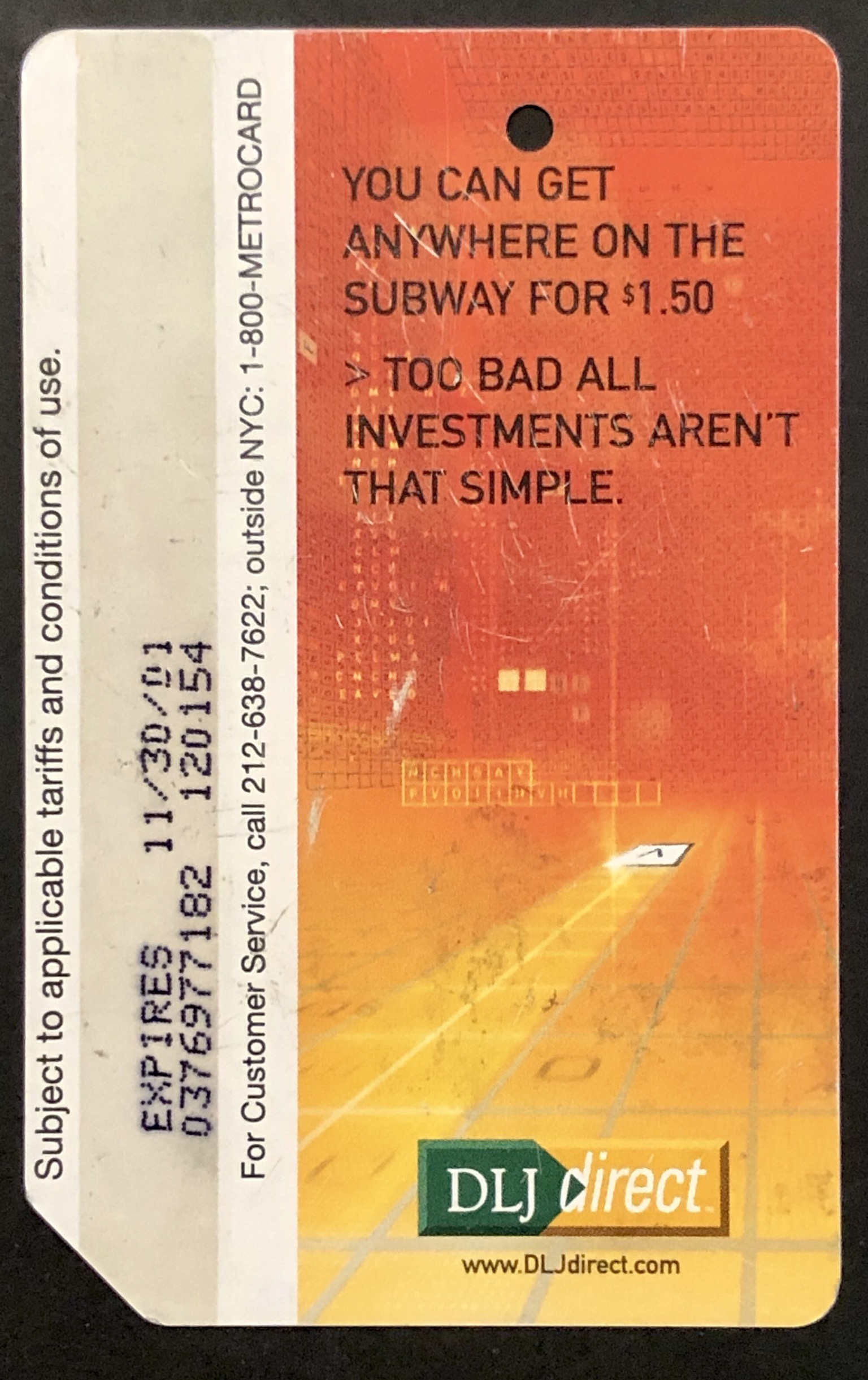 2001 MetroCard advertisement for DLJ direct